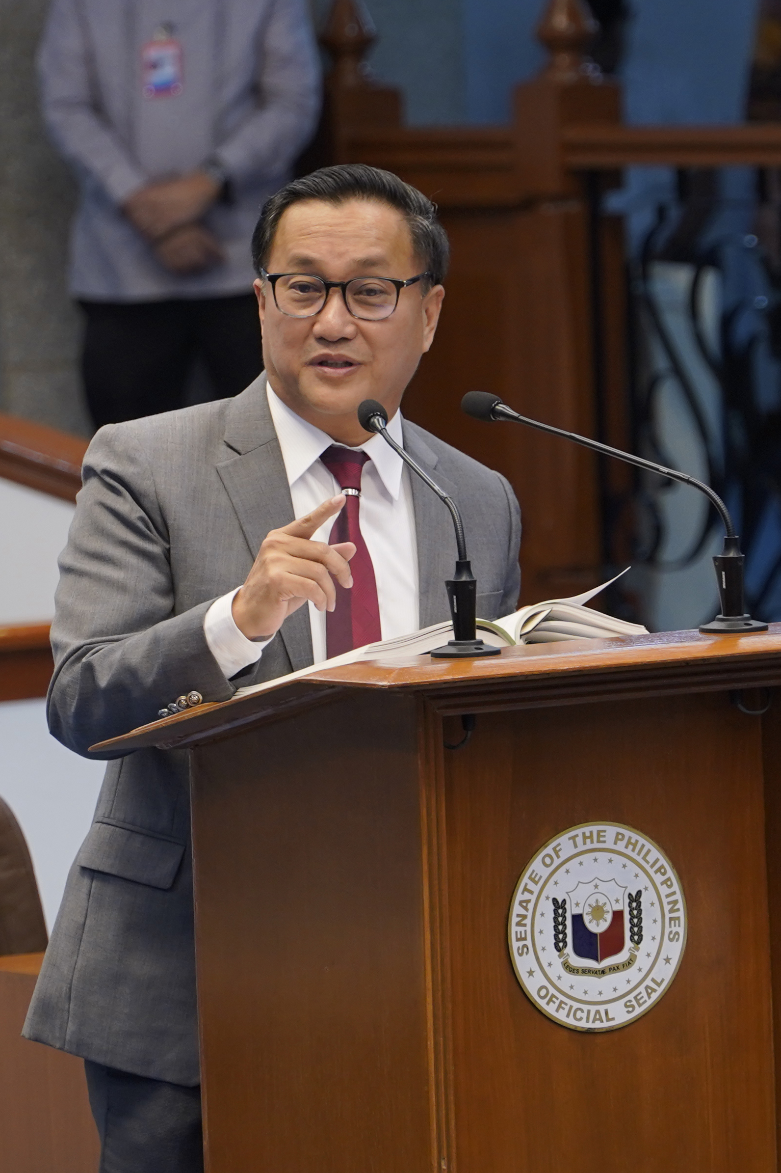 At the Senate Session Hall